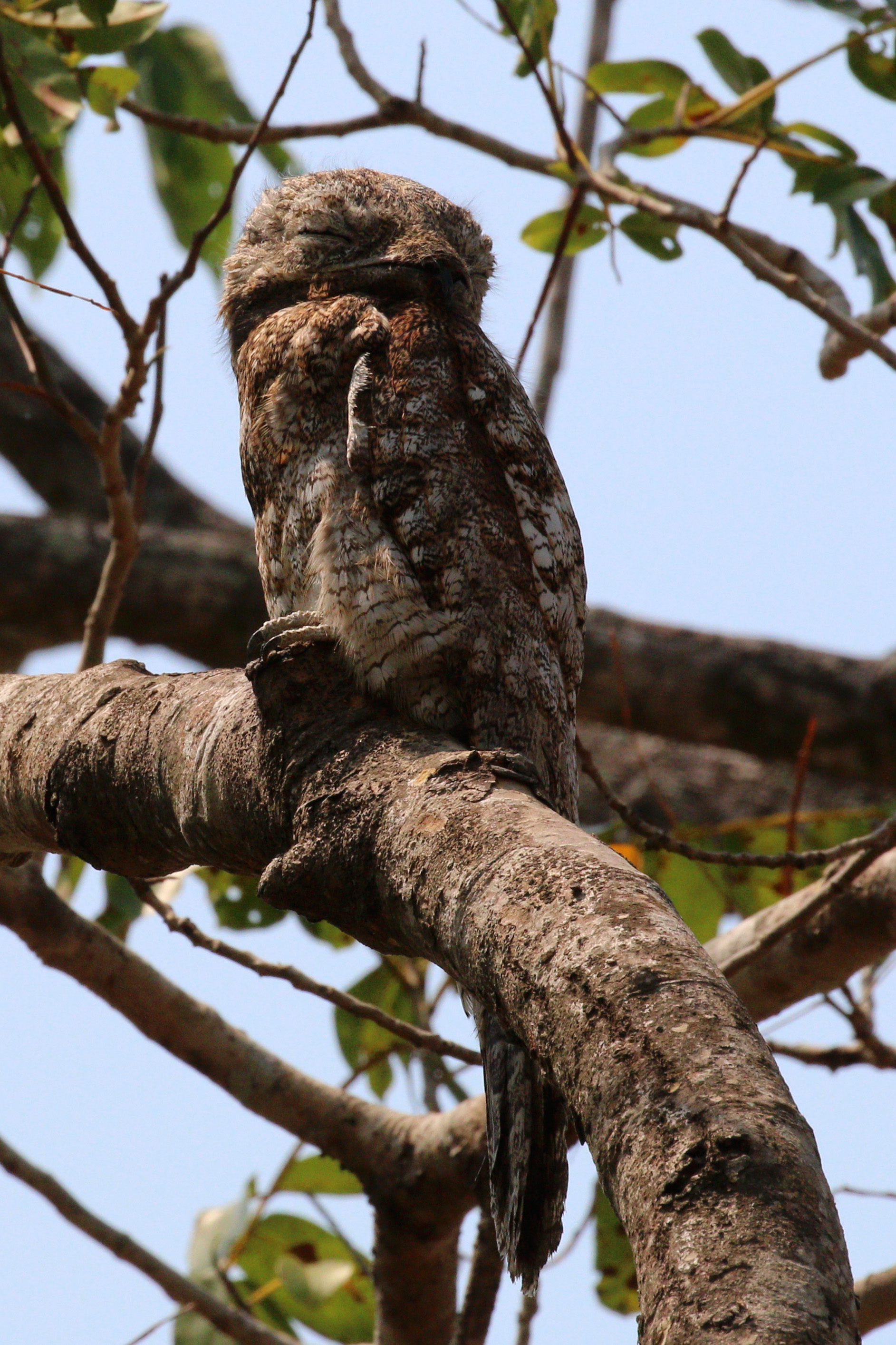 Great potoo (Nyctibius grandis), Pantanal, Brazil